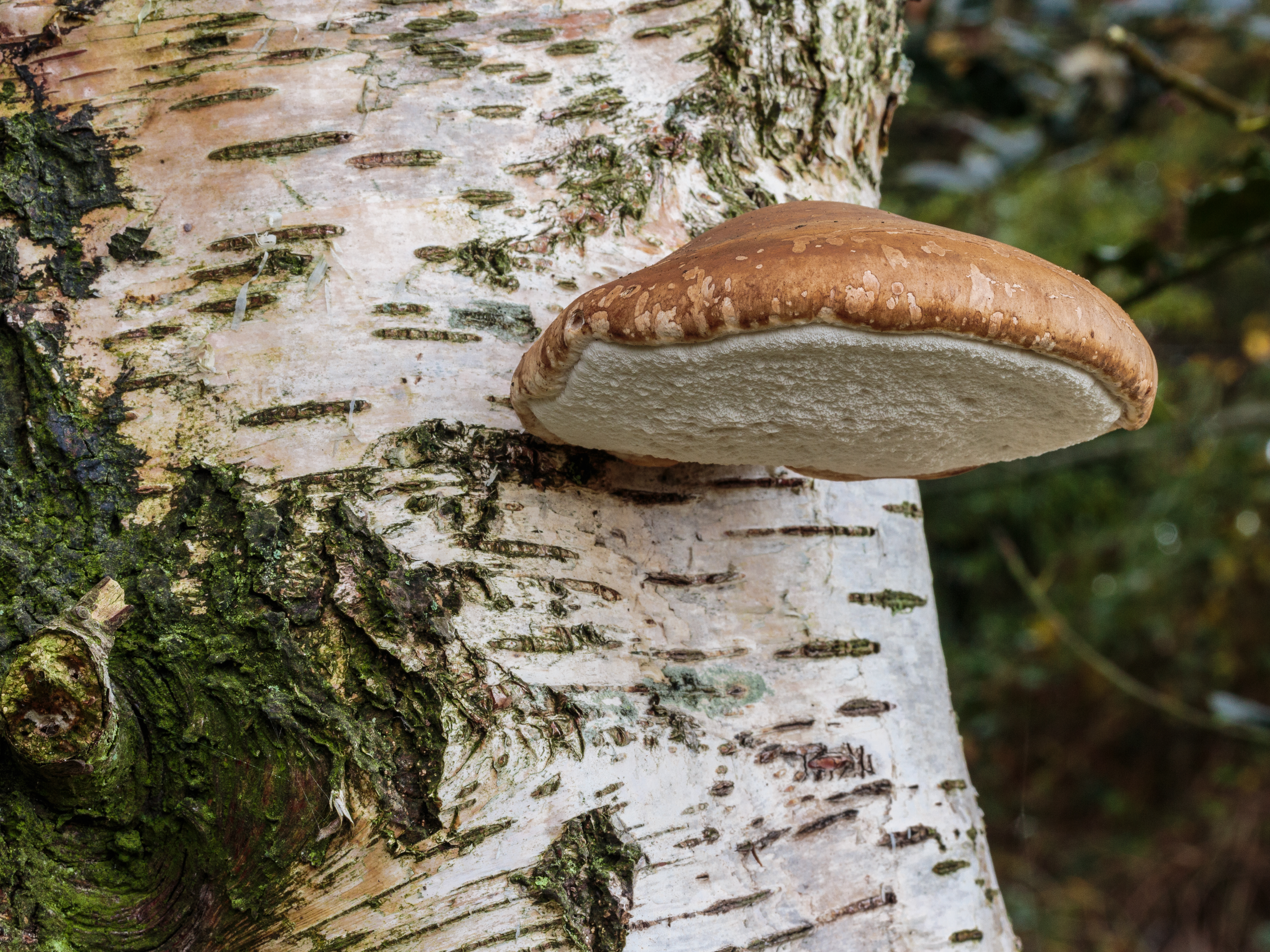 Birch mushroom (Piptoporus betulinus) on the trunk of a birch.